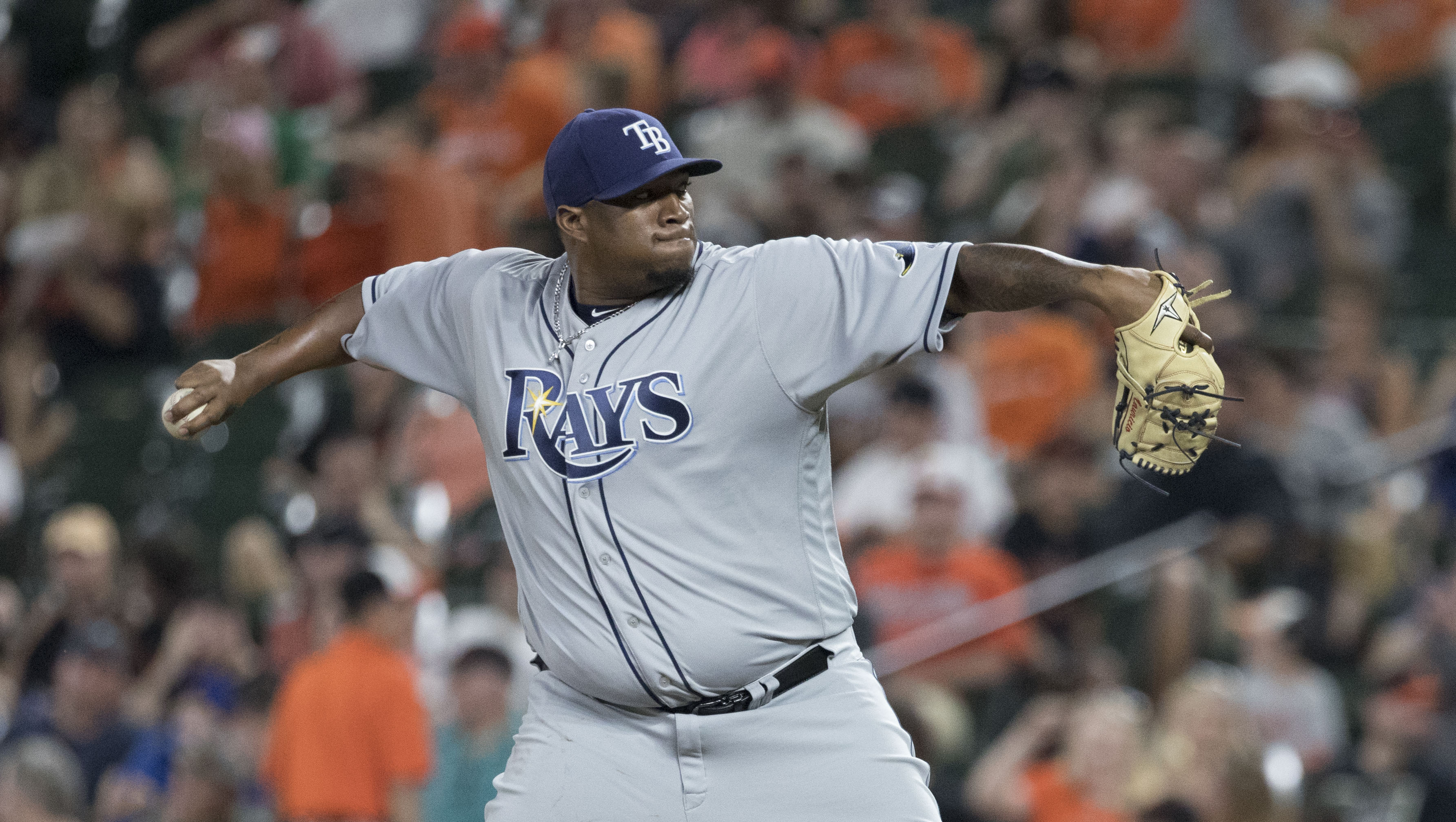 Jumbo Diaz of the Tampa Bay Rays pitches in a game against the Baltimore Orioles at Oriole Park at Camden Yards on June 30, 2017 in Baltimore, MD.